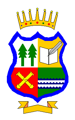 Seal of the Maule Region between 1974 and 2002